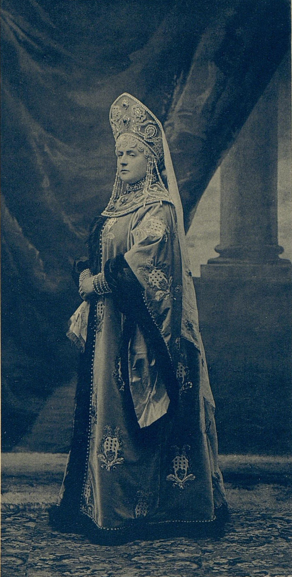 Nadezhda Sergeevna Timasheva